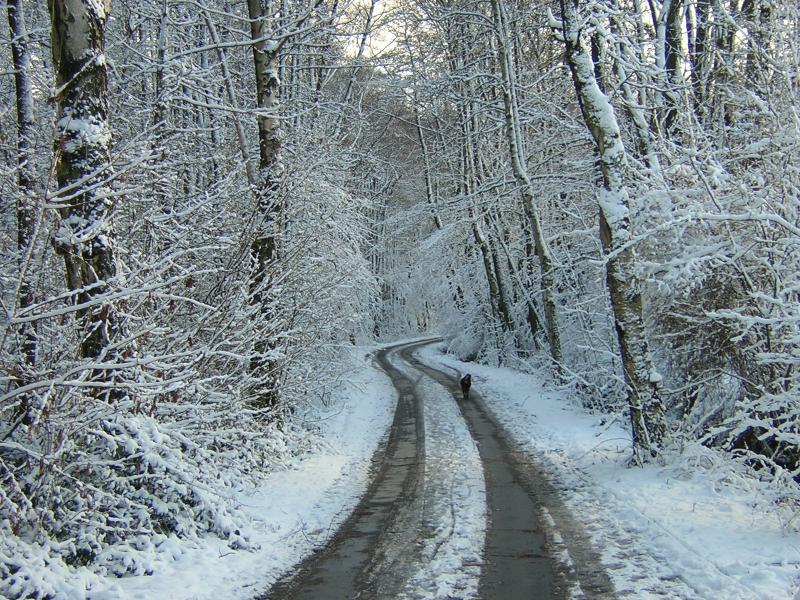 Snowy road near town of Vlotho, District of Herford, North Rhine-Westphalia, Germany.